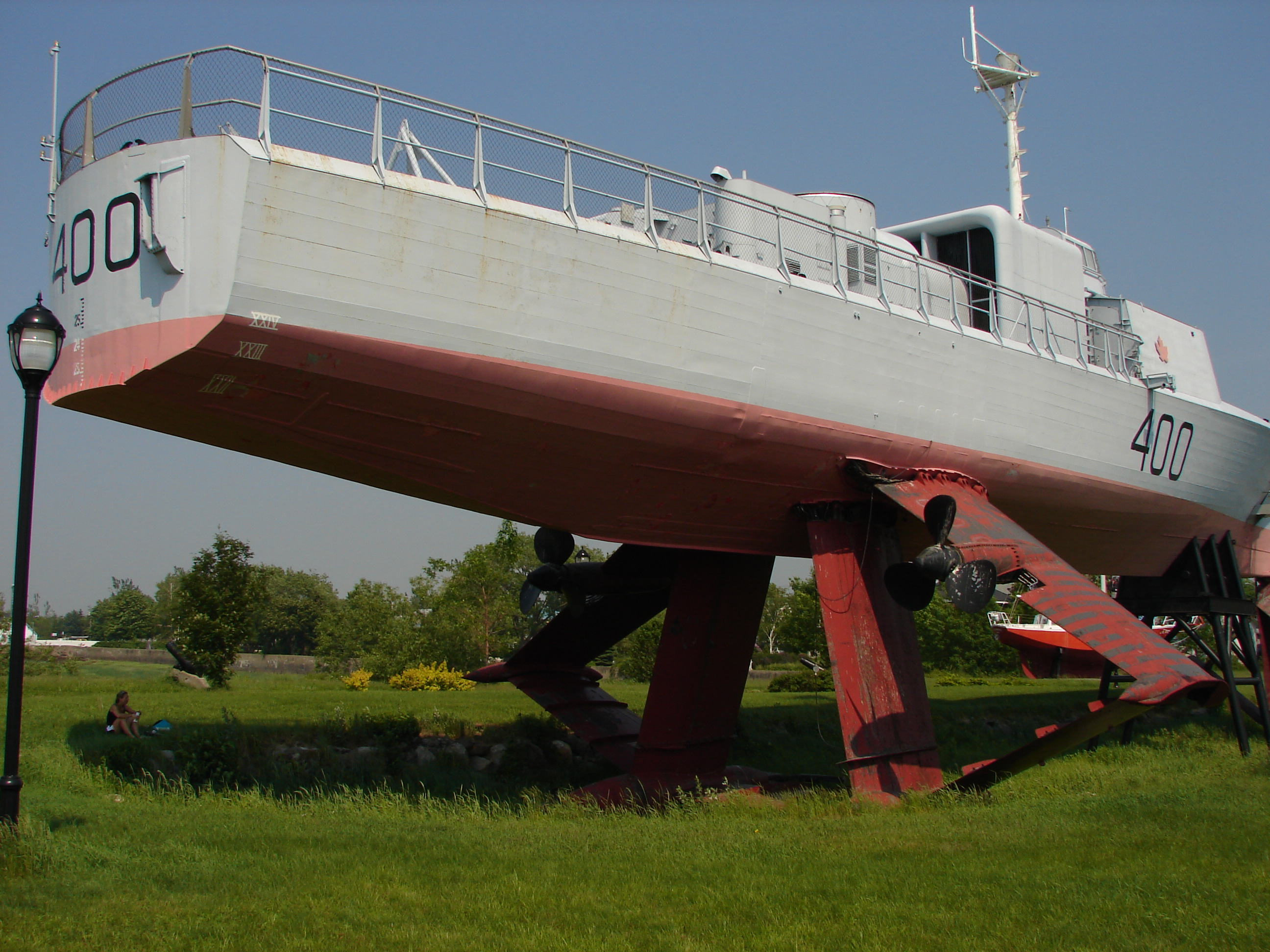 Author: Miguel Tremblay Date: June 19th 2006 Source: Photo taken by me on at the Musée maritime du Québec. Description: View of the rear of the hydrofoil HMCS Bras d'Or 400.